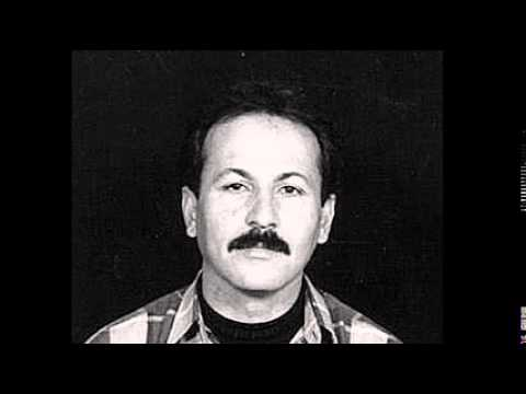 هونەرمەند فەرهاد زیرەک